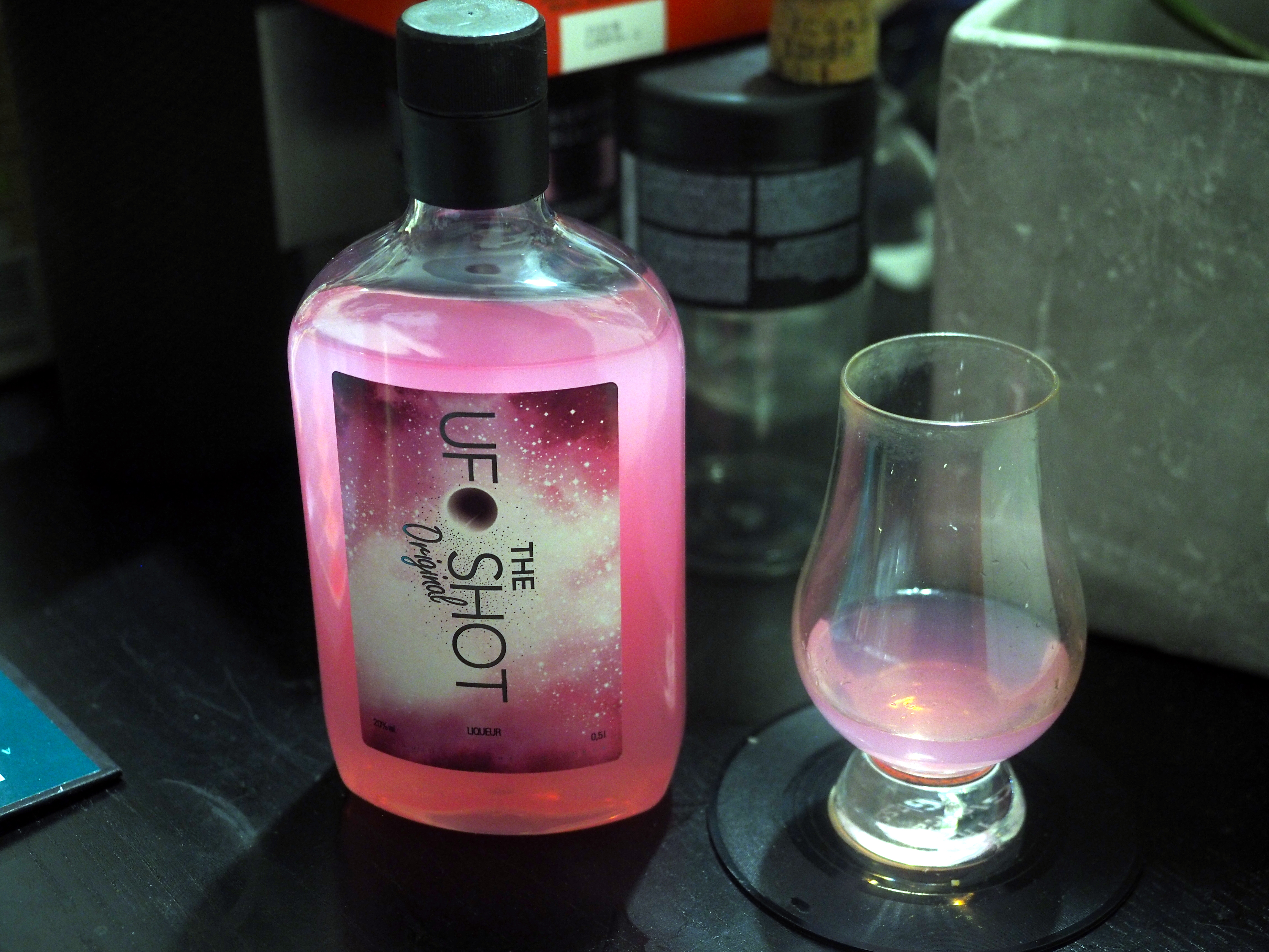 A bottle of "The UFO Shot", a berry liqueur containing ammonium chloride (salmiak), with some of the liqueur poured into a whisky glass.